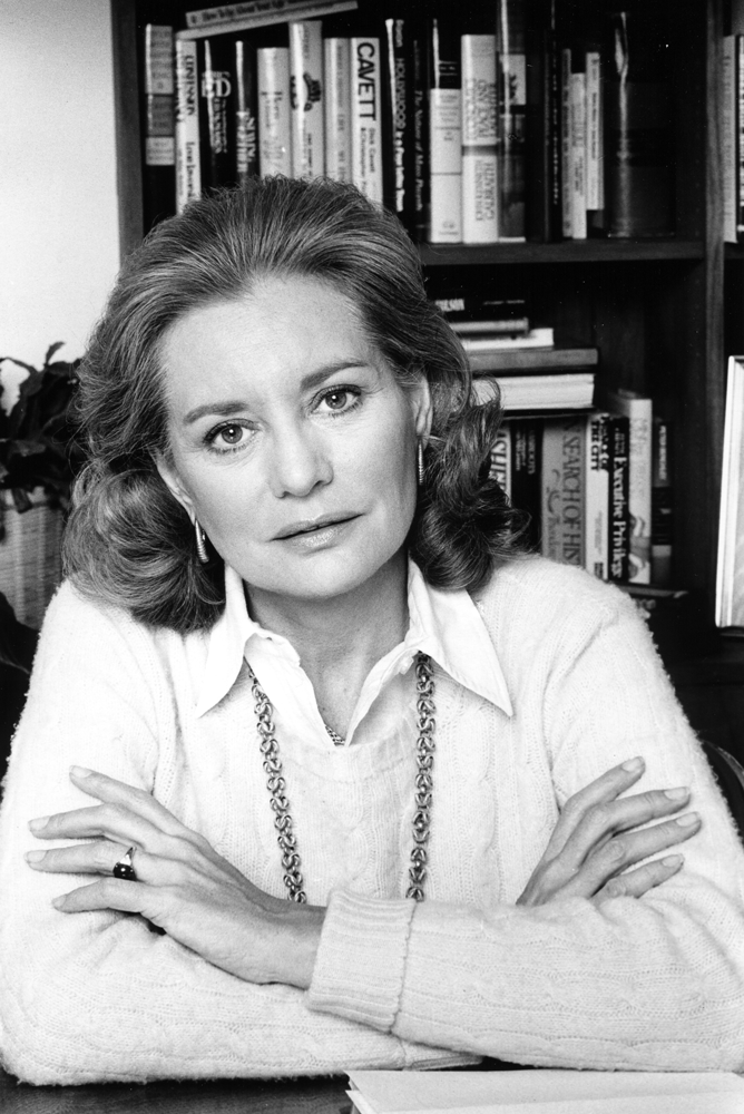 Barbara Walters in her office, as photographed by Lynn Gilbert in 1979, New York.